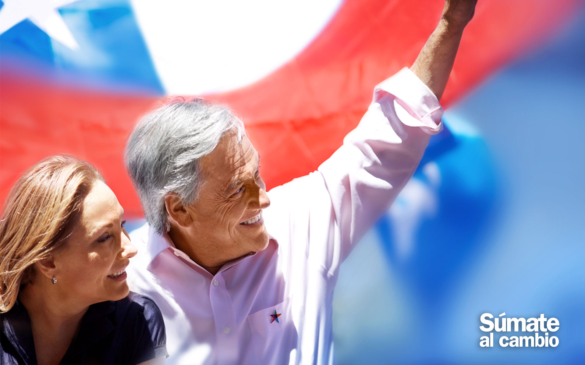 Campaign poster of Sebastián Piñera for the elections of President of Chile in 2009.